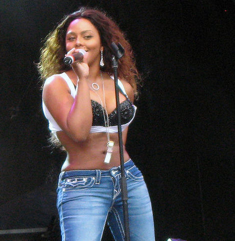 Lil' Kim, Grammy Award winning, American multi-platinum rapper.